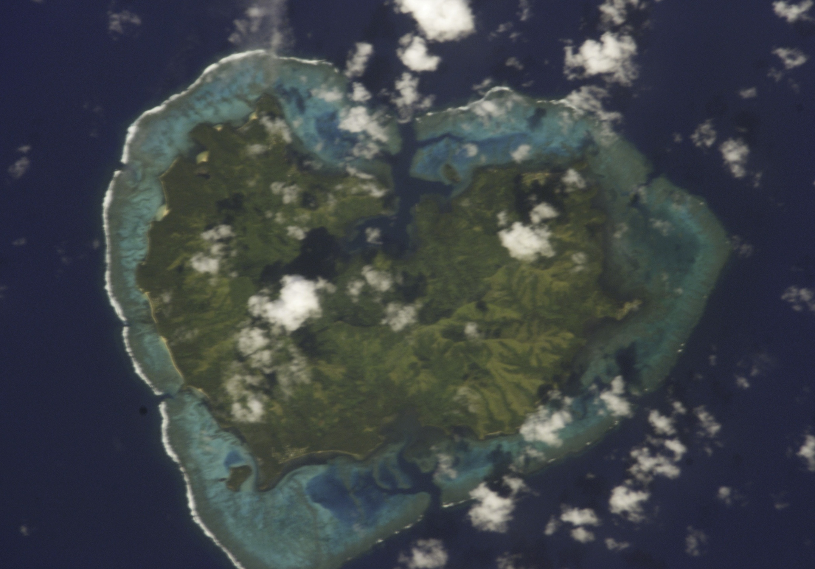 NASA astronaut image of Matuku, Moala Group, Lau Archipelago, Fiji